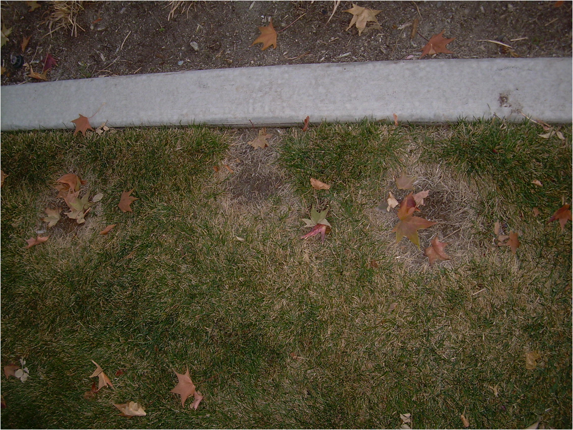 Necrotic ring spot on Kentucky bluegrass, caused by Curvularia geniculata.